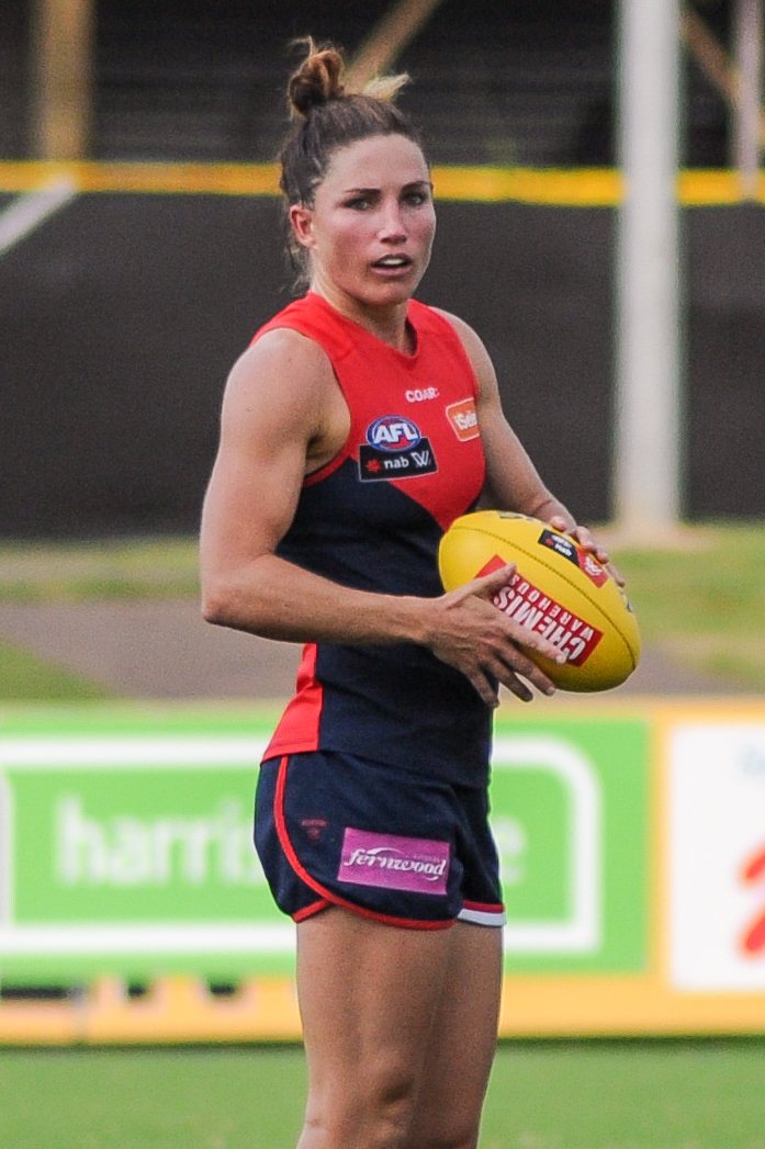 Melissa Hickey during the AFL Women's round six match between Adelaide and Melbourne on 11 March 2017 at TIO Stadium in Darwin, Northern Territory